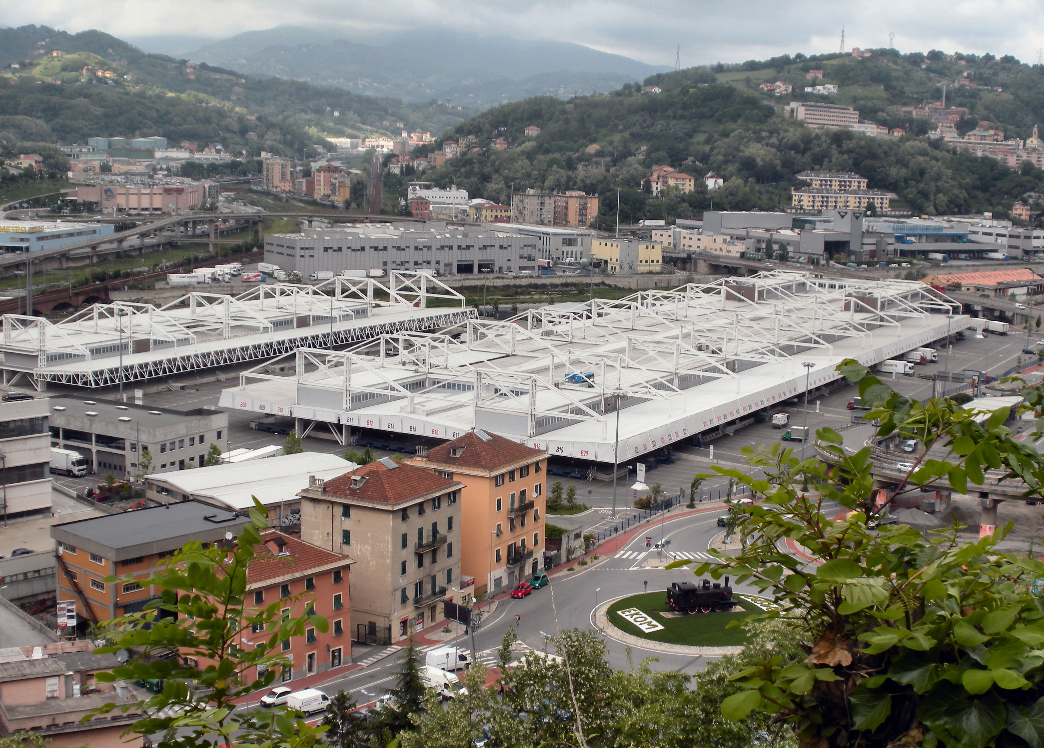 Genoa (Italy), quarter of Bolzaneto, the general fruit and vegetables market